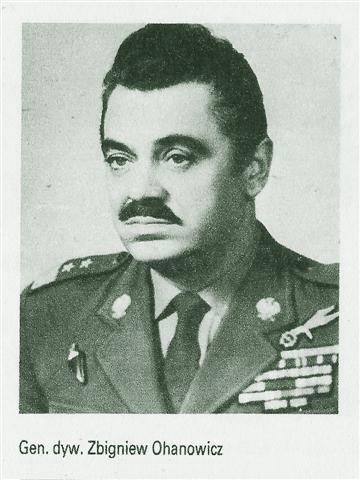 Major General of Polish Army Zbigniew Ohanowicz (1923-2001)